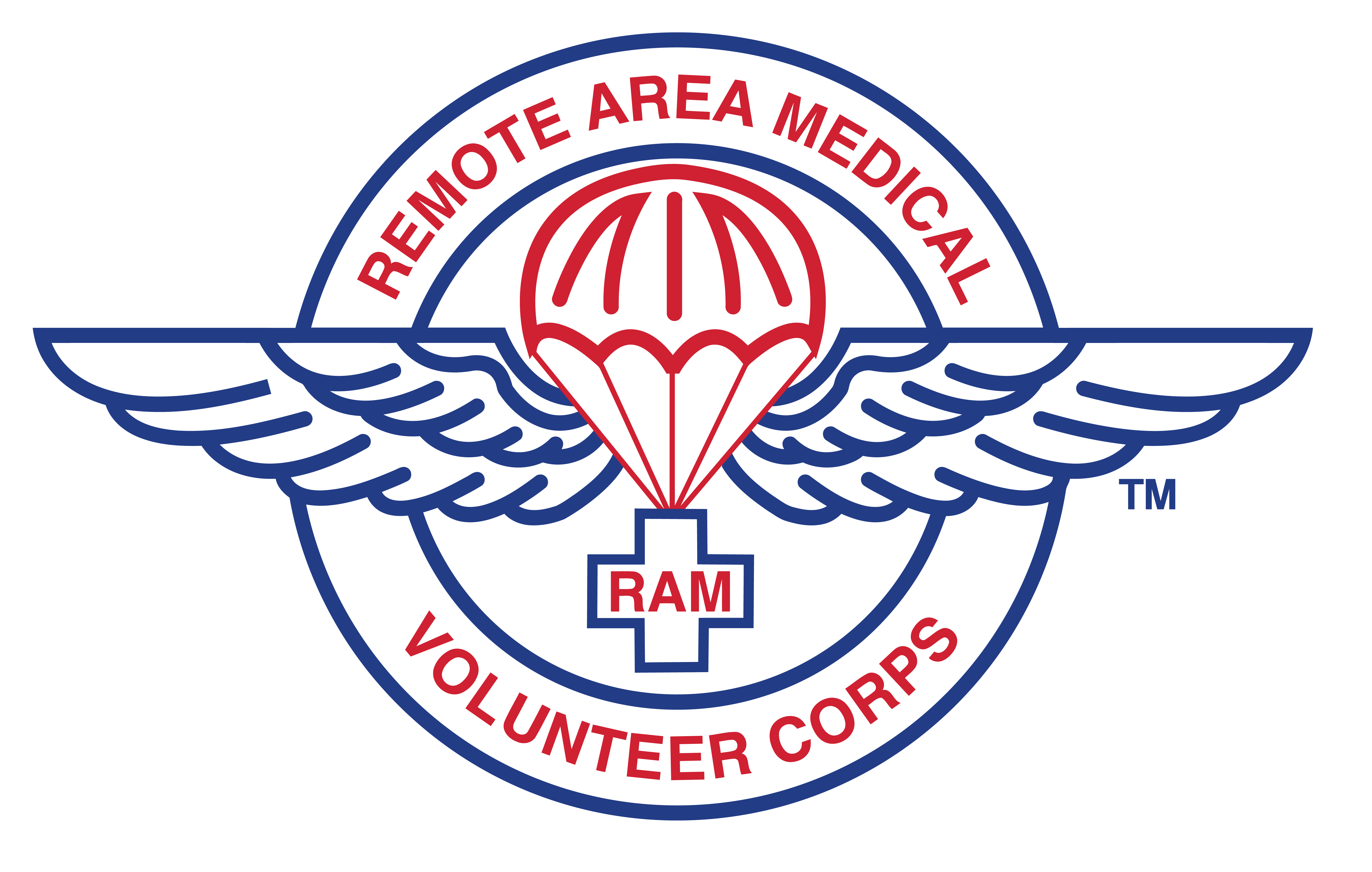 Remote Area Medical Logo